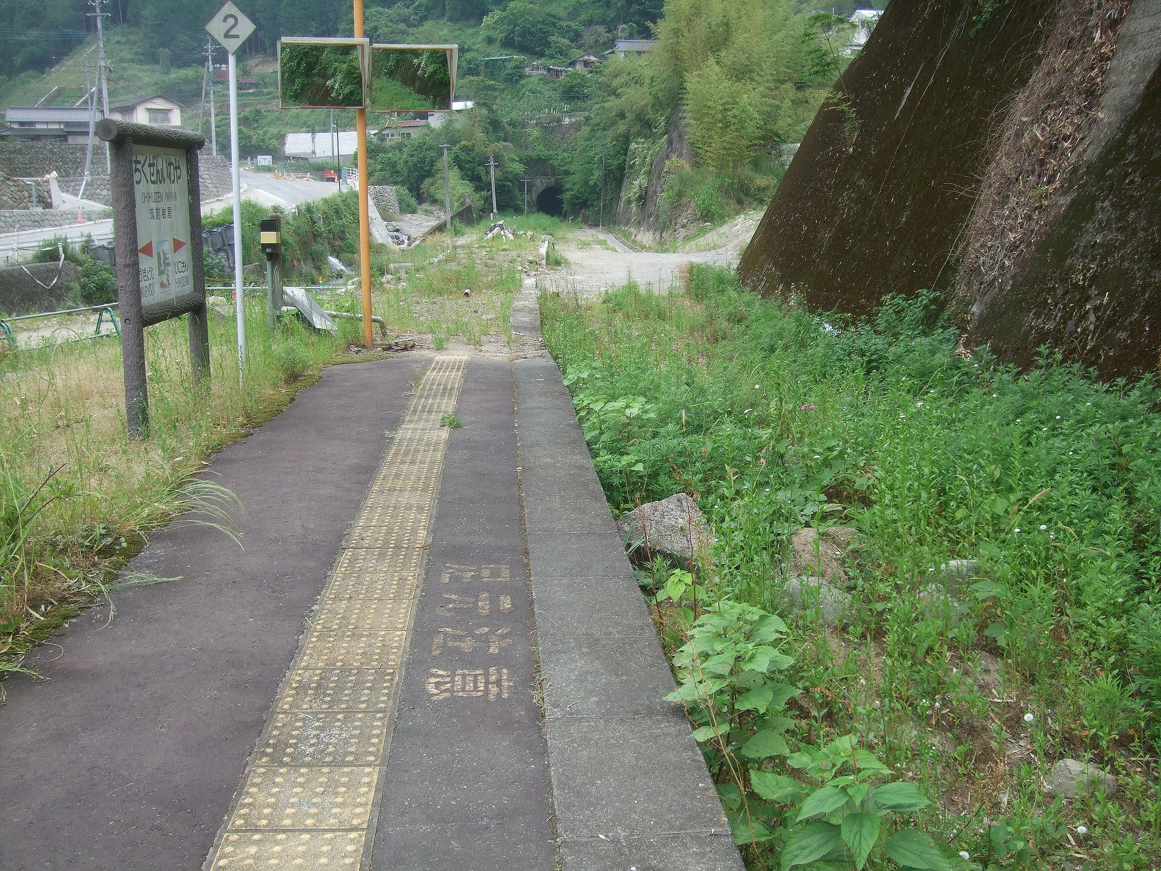 Chikuzen-Iwaya Station, Hitahikosan Line, Toho Village, Fukuoka, Japan. This is broken by 2017 Northern Kyushu Flood.